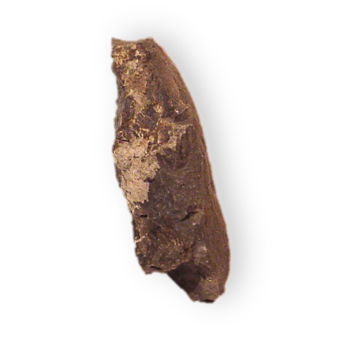 These mineral images are free to use how you wish.